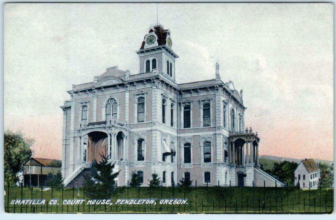 Umatilla County Courthouse in Pendleton, Oregon (built 1888), in a postcard dated c. 1910s.